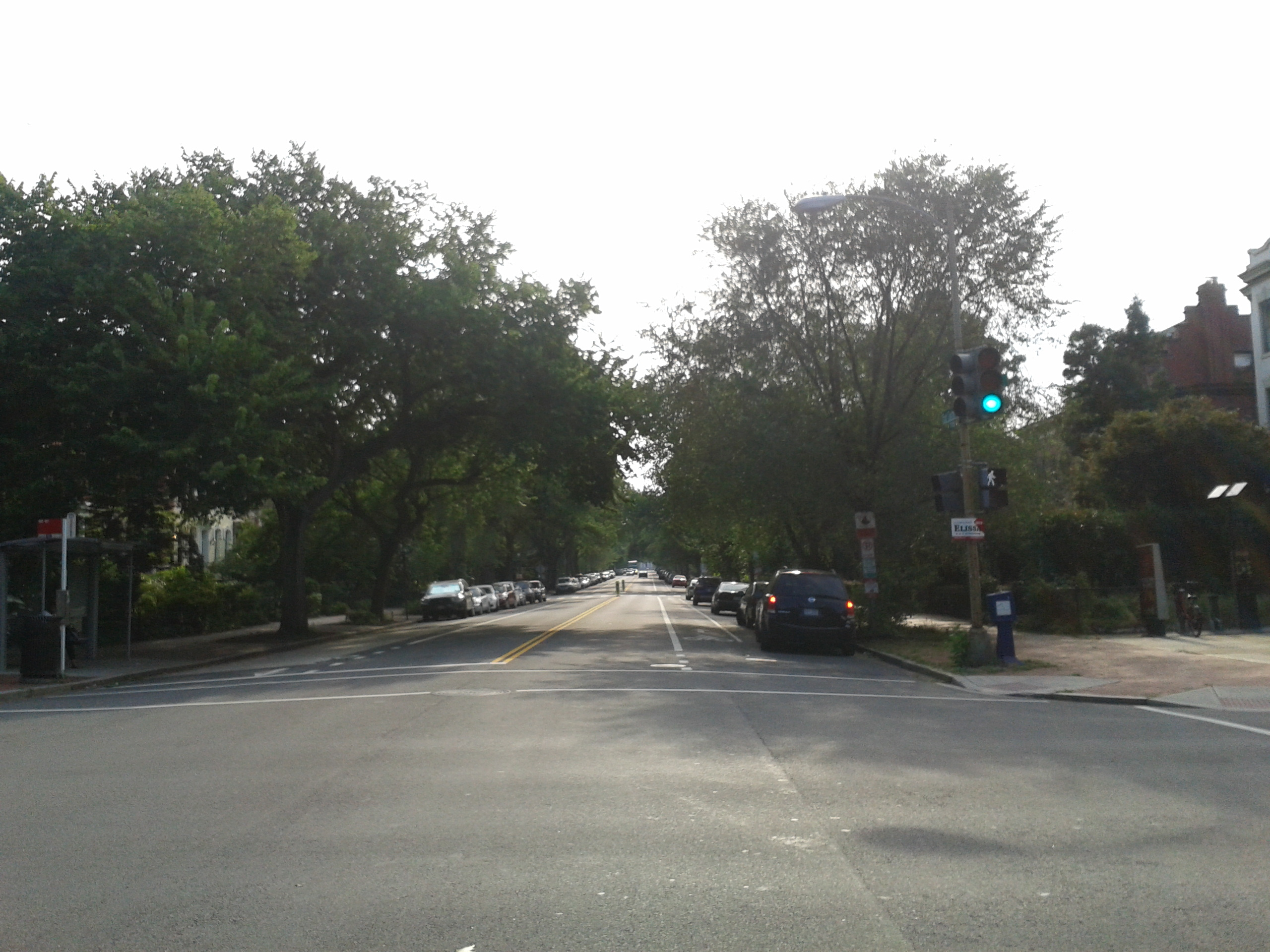 File:East Capitol Street looking towards the Capitol Building